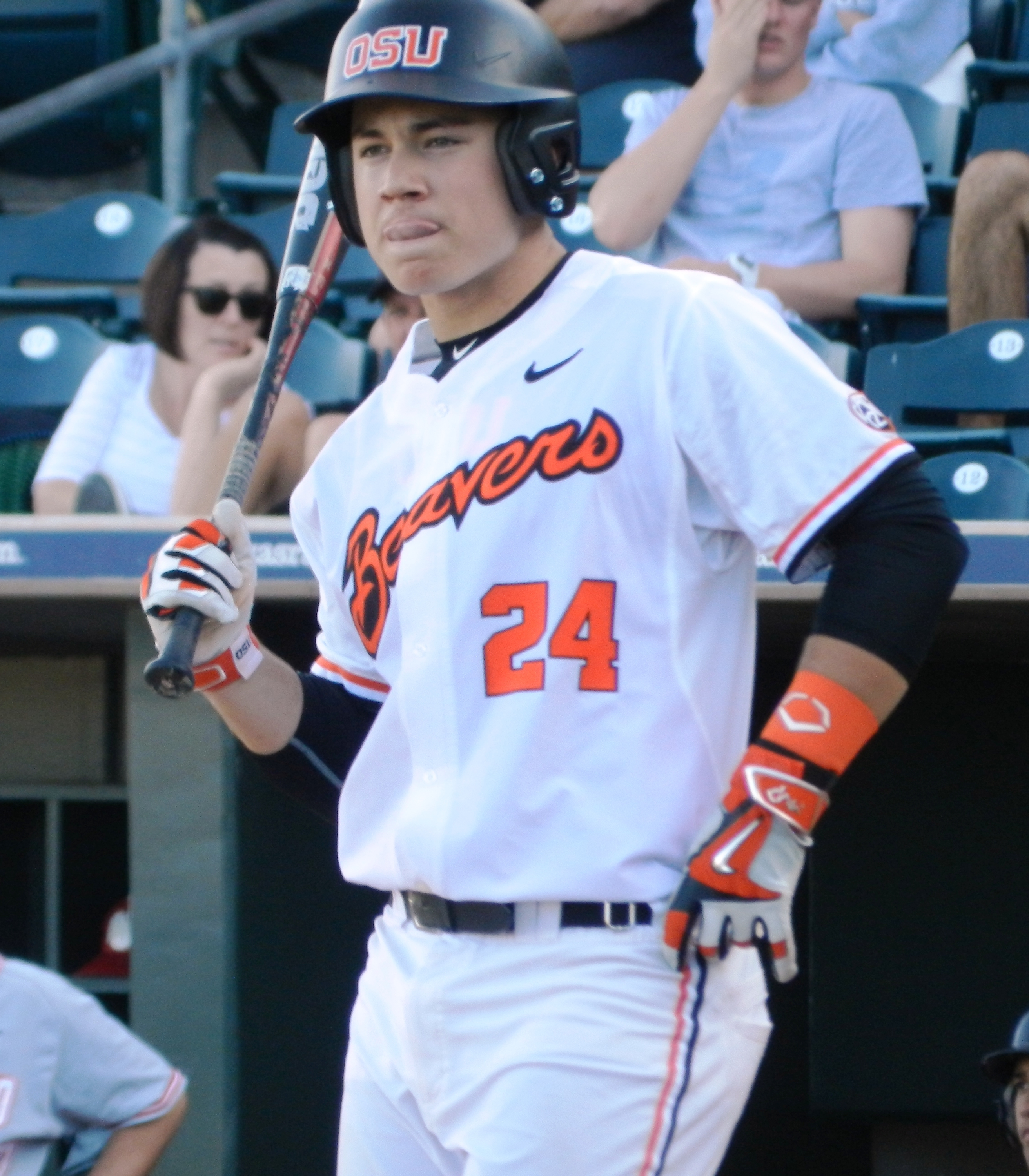 KJ Harrison with the Oregon State Beavers during a 2015 game